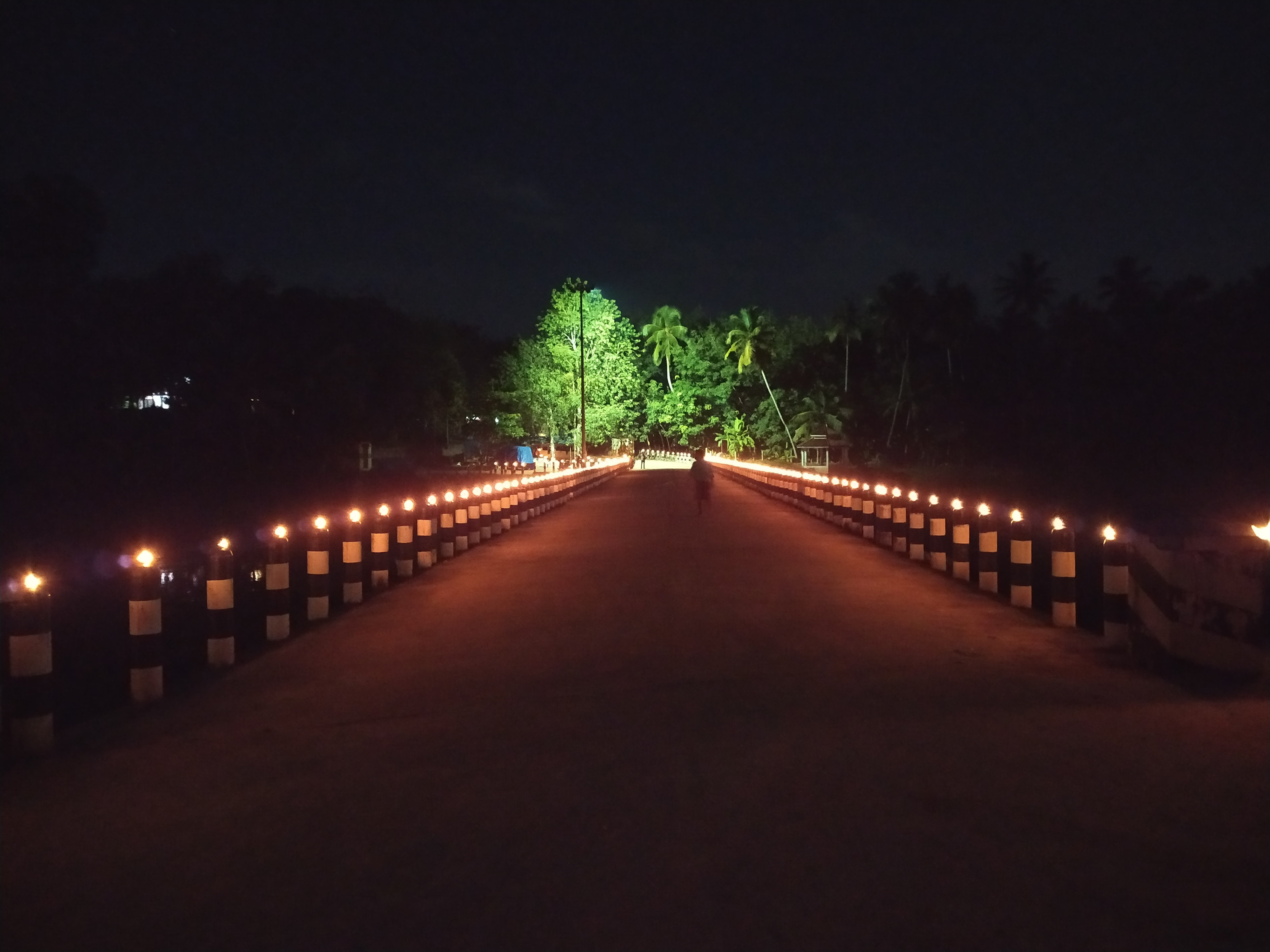 Agalvilakkus litted on the occasion of Thirukkarthigai Deepam celebration 2019.